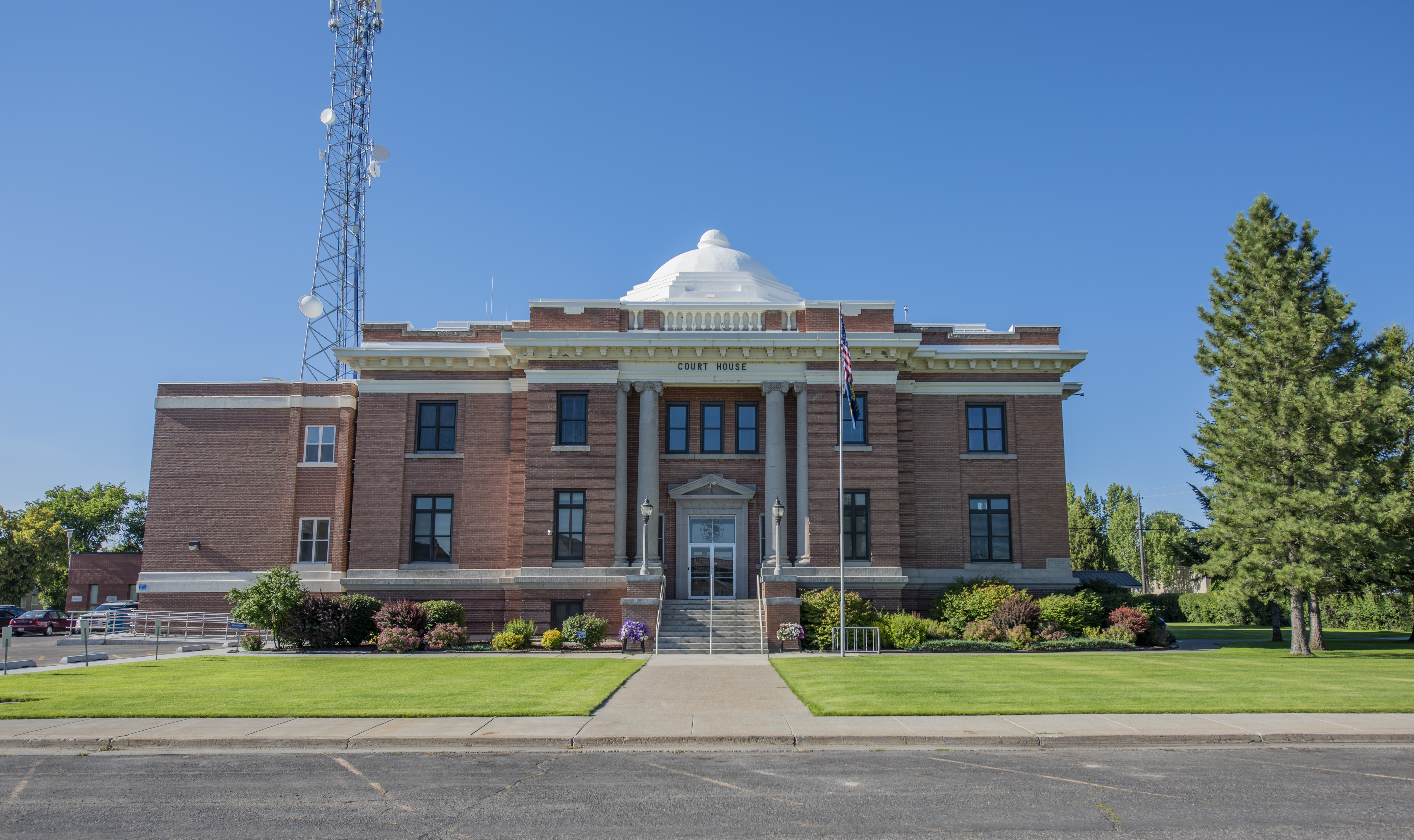 Photograph of the Fremont County Courthouse in St. Anthony, Idaho. Image taken in July 2020.